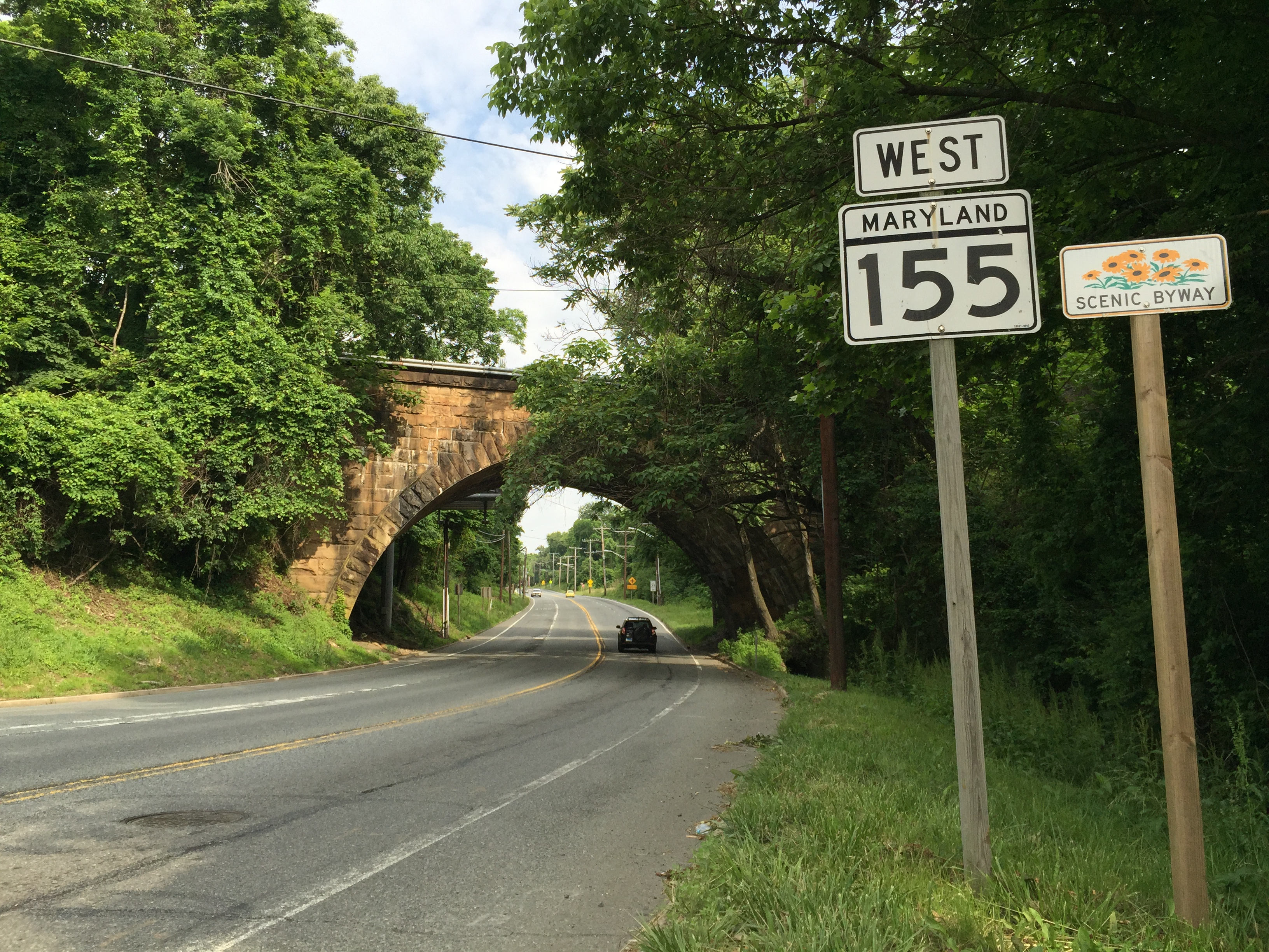 View west along Maryland State Route 155 (Level Road) at the west end of Maryland State Route 763 (Superior Street) in Havre de Grace, Harford County, Maryland